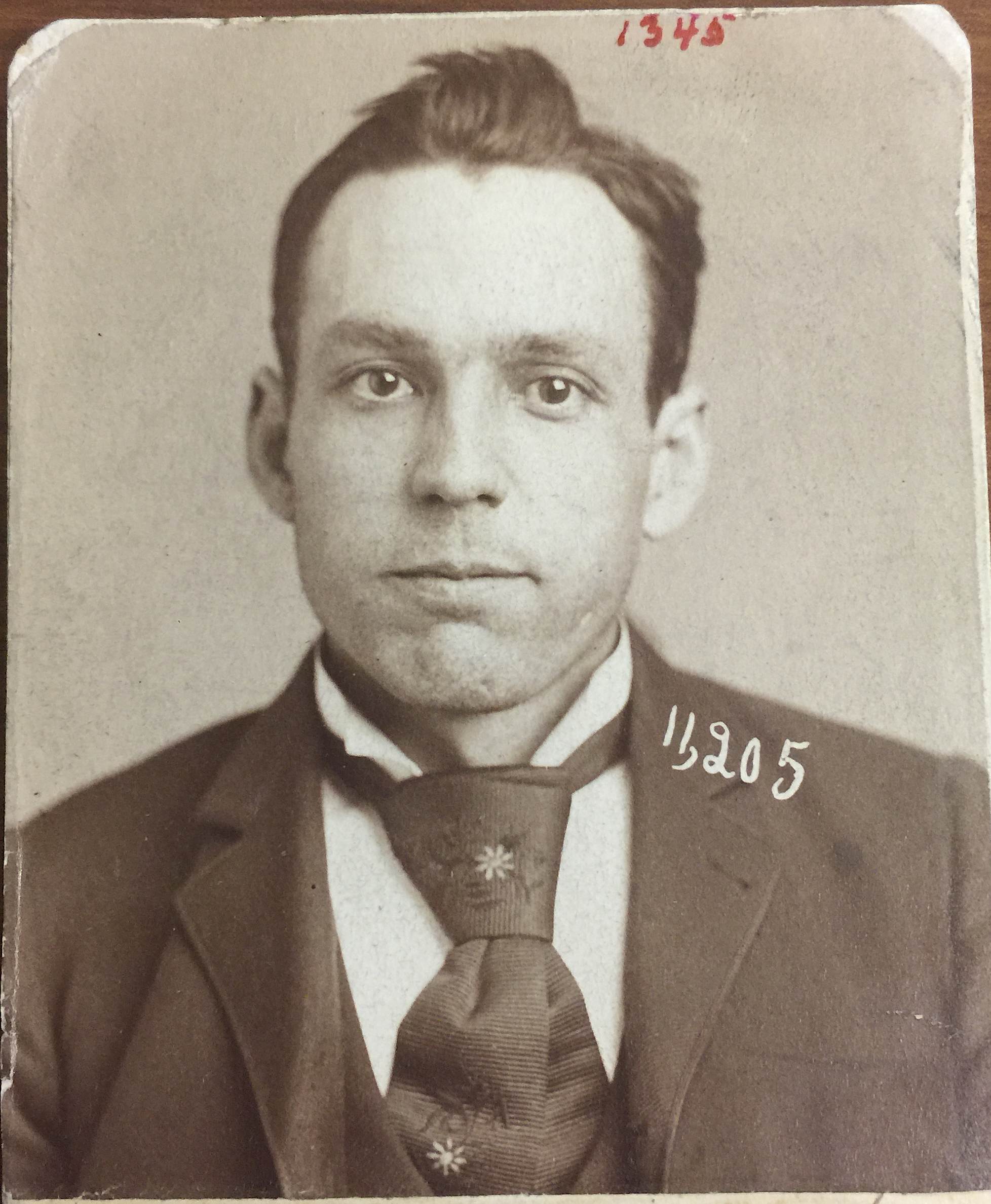 Marion Hedgepeth February 1892 arrest photo, age 28, St. Louis Missouri, St. Louis Detective Department